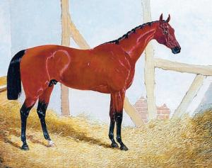 Cotherstone, winner of the 1843 Epsom Derby. Unknown artist, but given the date has certainly been dead for 100 years